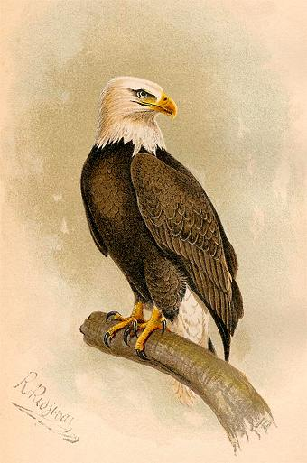 Bald Eagle Haliaeetus leucocephalus, Robert Ridgway, Hawks and Owls, US Department of Agriculture, 1893. Robert Ridgway, an ornithologist and Curator of Birds at the Smithsonian Institution from 1874 until 1929, authored and illustrated many books and articles on North American birds, along with works emphasizing regional birds, including the birds of his native Illinois.